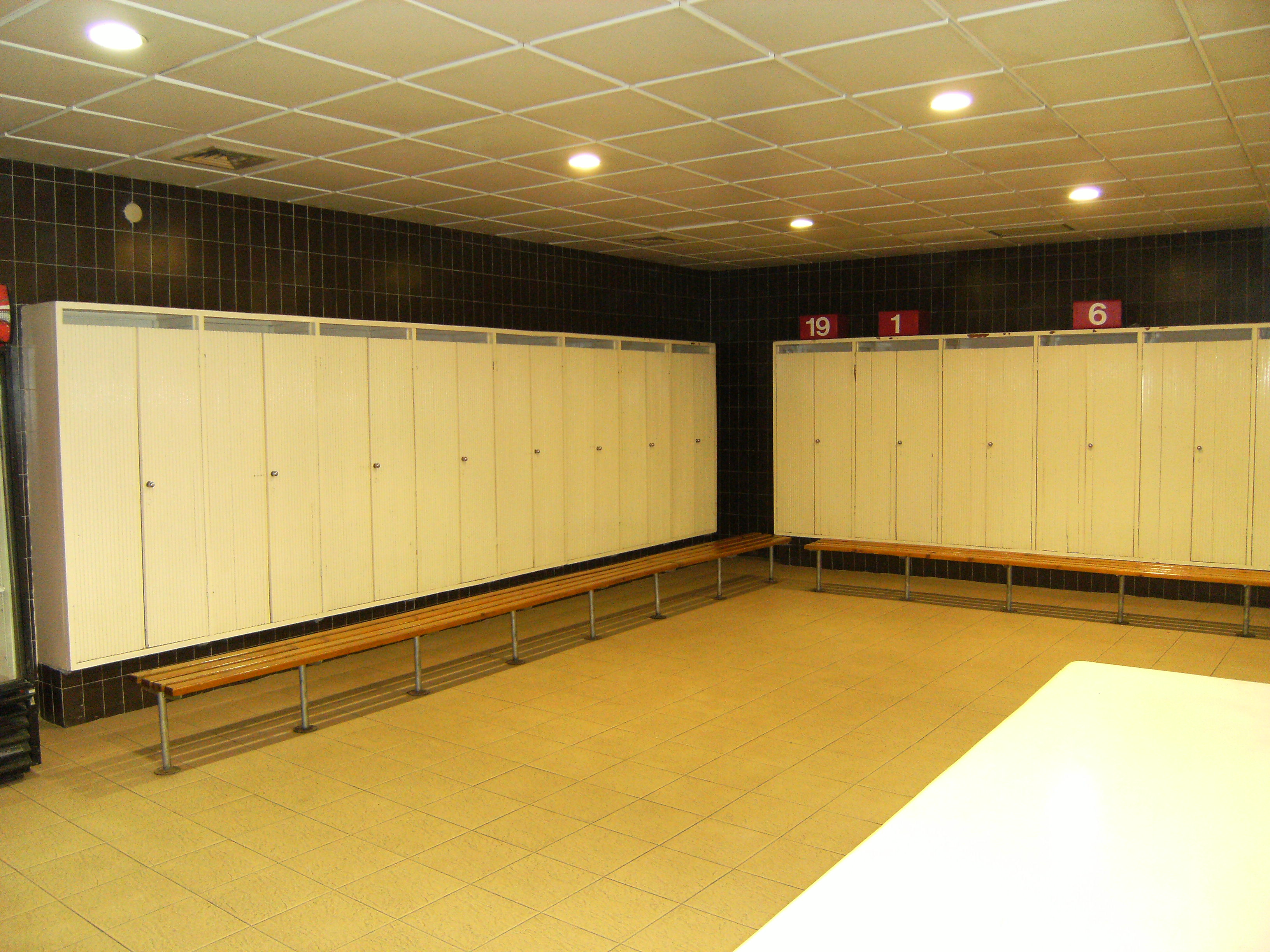 Old locker room in Camp Nou, Barcelona, Spain